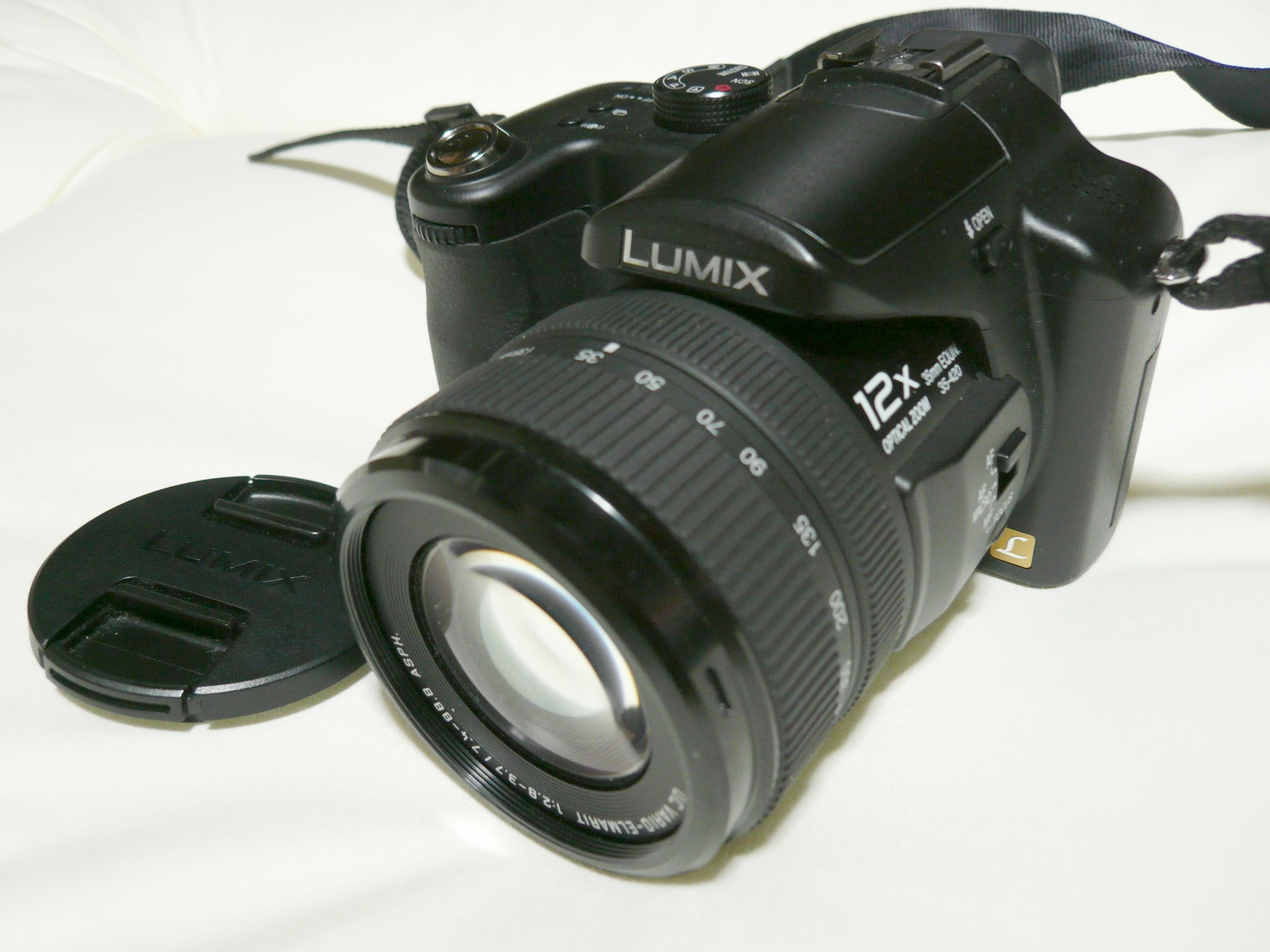 Panasonic LUMIX DMC-FZ50.